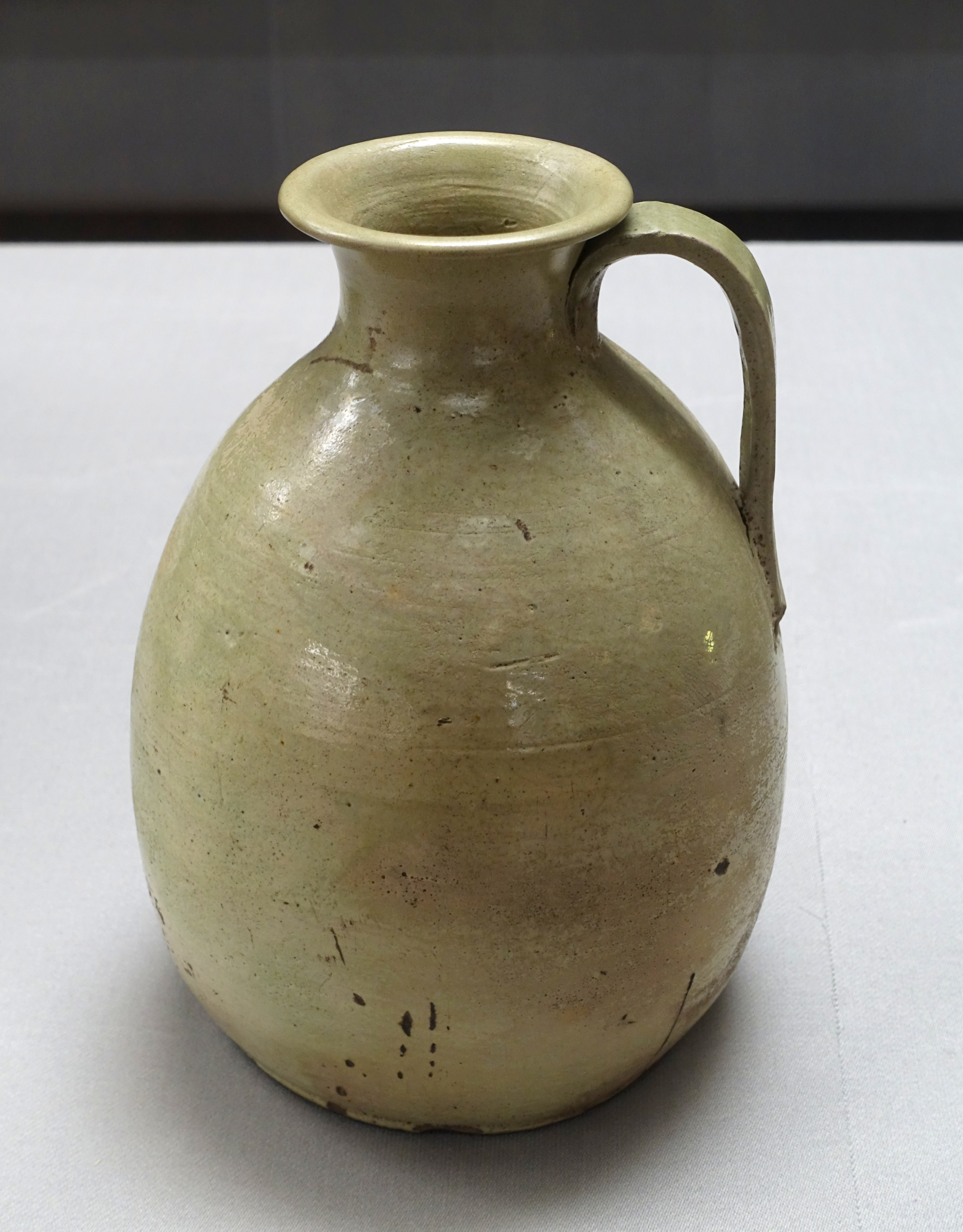 Exhibit in the Tokyo National Museum - Tokyo, Japan.